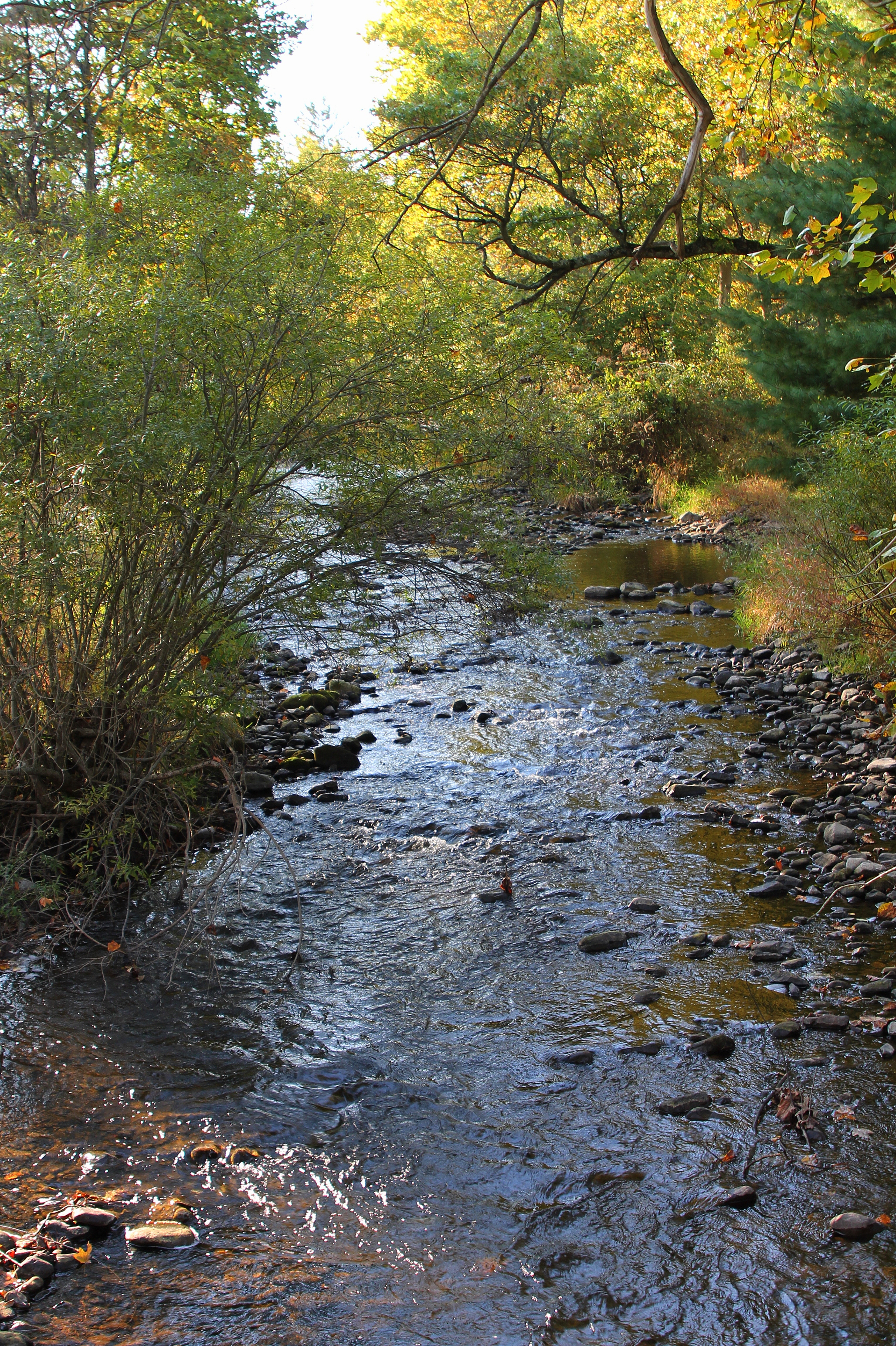 Rapid Run looking upstream near its mouth